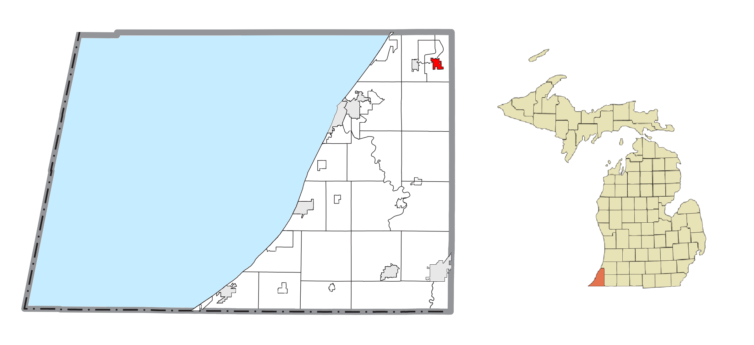 Watervliet, MI